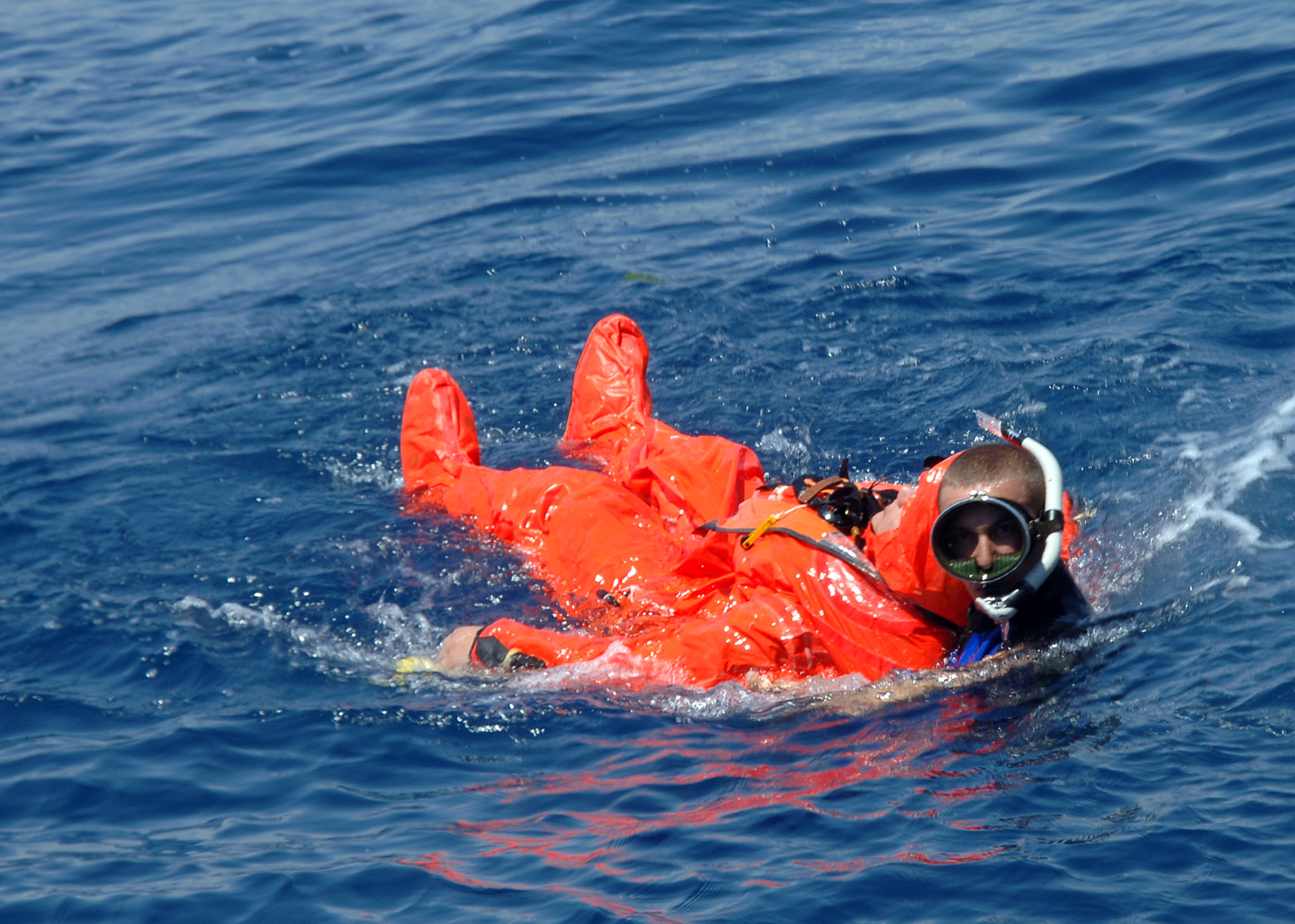 Gulf of Taranto, Italy (June 21, 2005) - A Sailor is rescued by a diver after escaping from the Italian submarine Primo Longobardo in the Submarine Escape and Immersion Equipment (SEIE) MK-10 suit during the North Atlantic Treaty Organization (NATO) submarine escape and rescue exercise Sorbet Royal 2005. Divers from various nations will work together to rescue submariners during the exercise in the Mediterranean. Twenty-seven participating nations, including 14 NATO nations will test their capabilities and interoperability. Four submarines with up to 52 crewmembers aboard will be placed on the bottom of the ocean, while rescue forces with rescue vehicles and systems work together to solve complex disaster rescue problems. U.S. Navy photo by Chief Journalist Dave Fliesen (RELEASED)